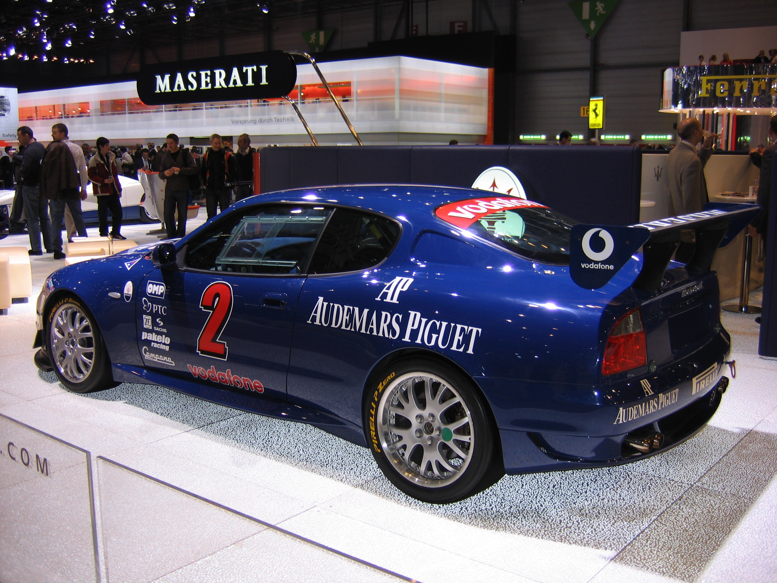 Geneva Motor Show 2005